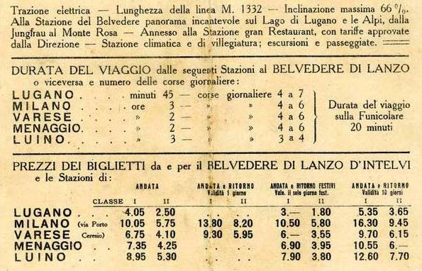 Lanzo d'Intelvi funicular - timetable